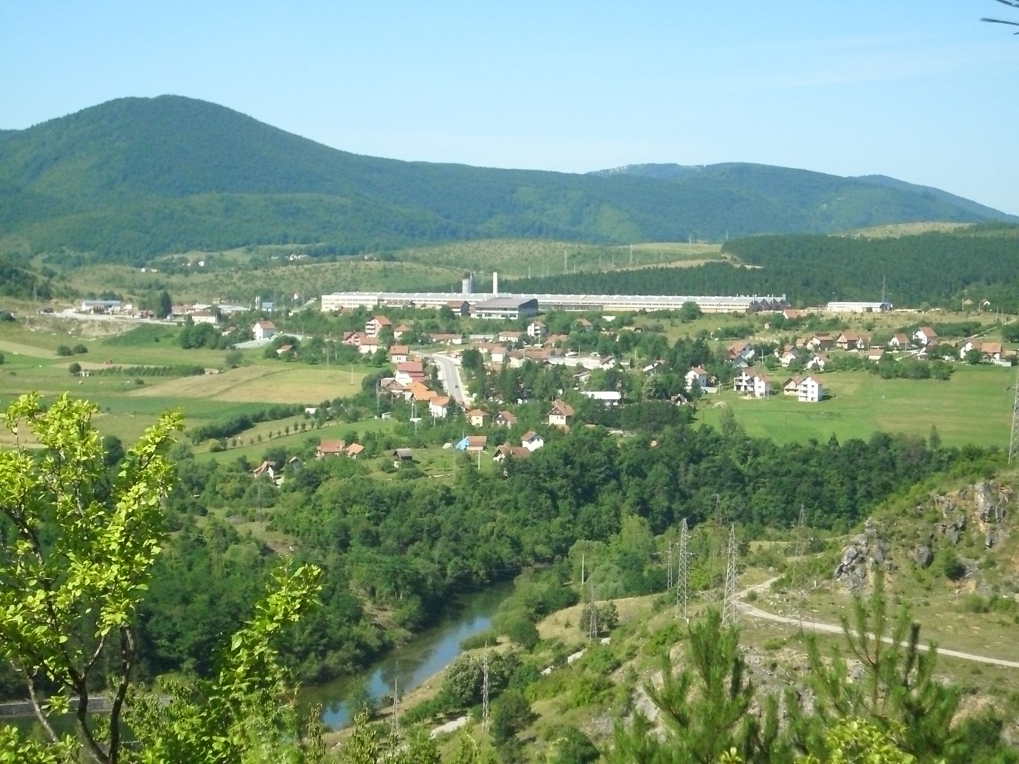 Kokin Brod